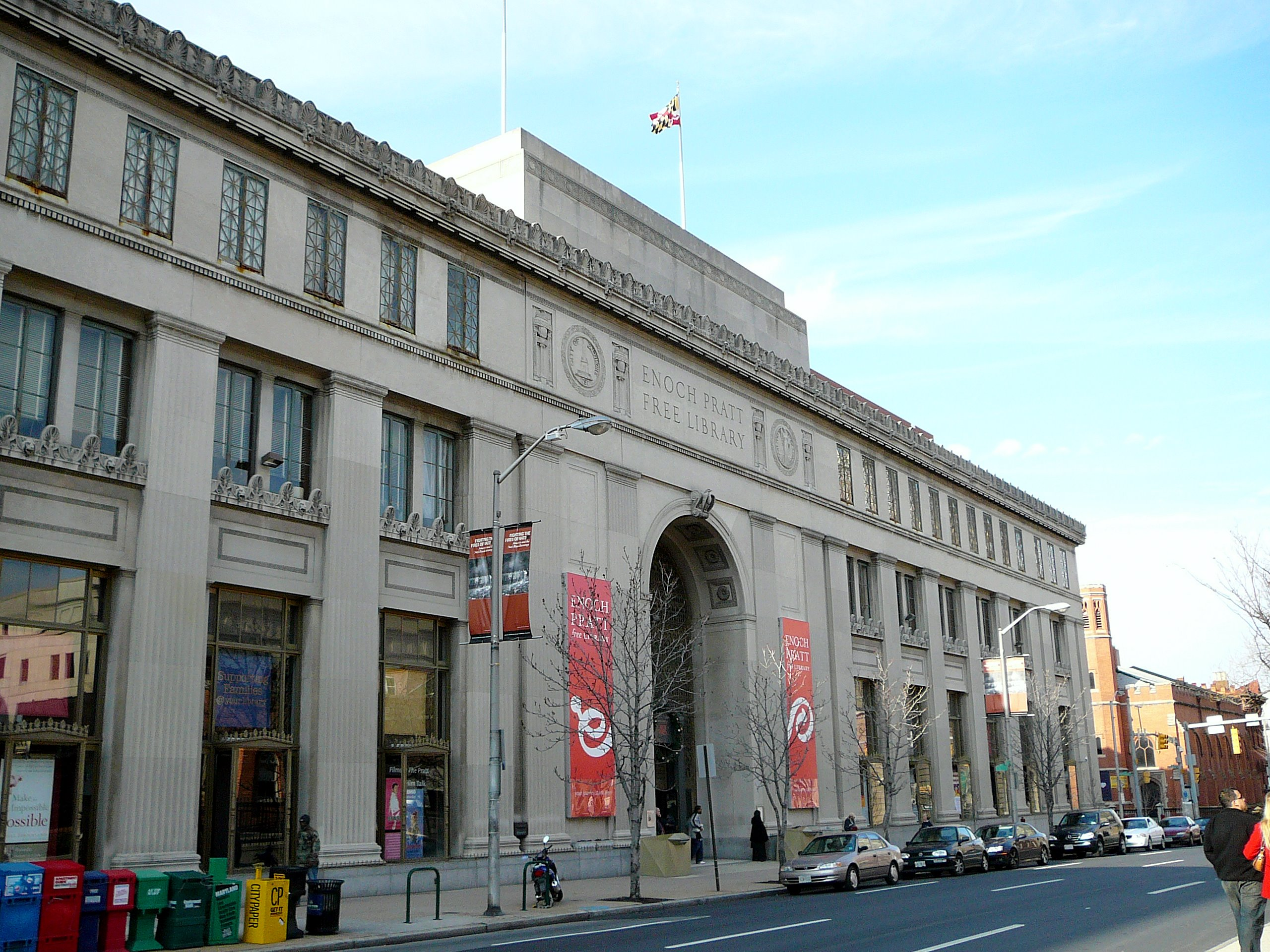 Enoch Pratt Free Library